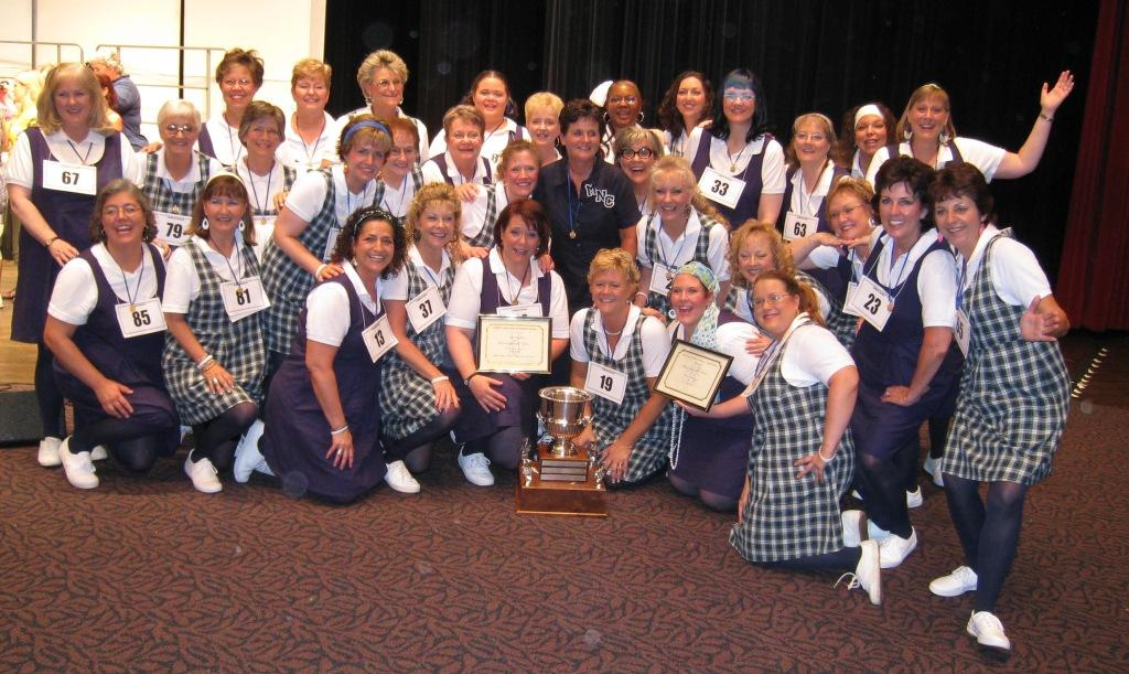 Metro Nashville Chorus with trohphy after winning the 2008 Harmony Classic, Division AA